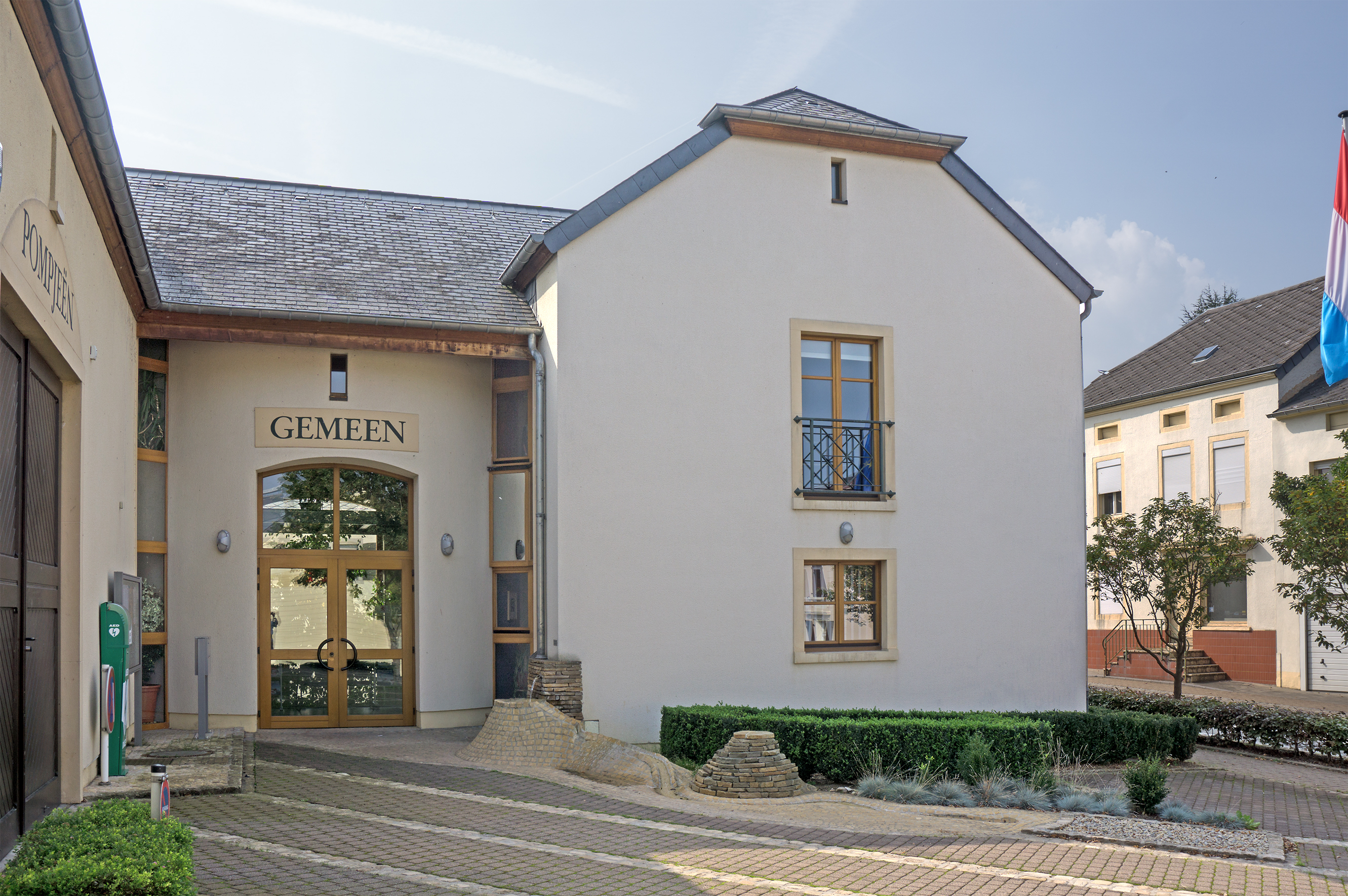 Town hall of Stadtbredimus